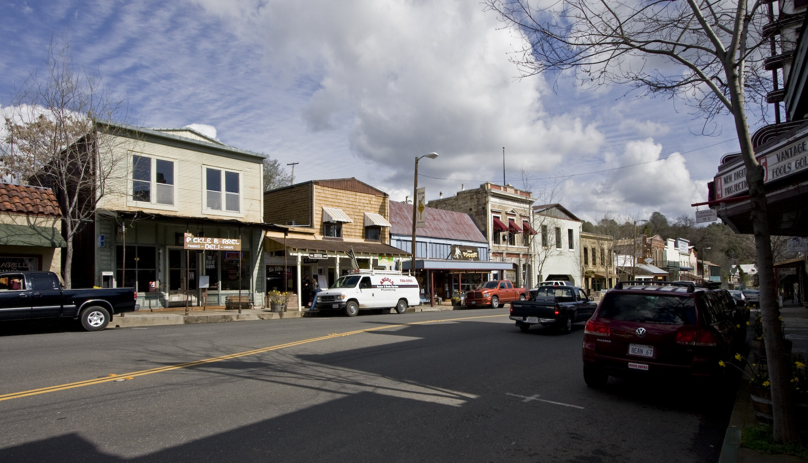 Photo of downtown Angels Camp, California taken in March 2008.